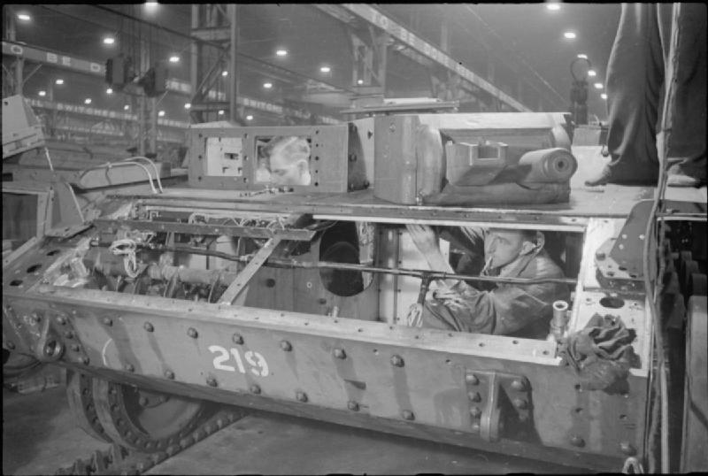 Birth of a British Tank- Tank Production in England, 1941 Two men work at putting the forward gun into position on this Crusader tank at a factory, somewhere in England, 1941. It is interesting to note that they are both smoking whilst they work!